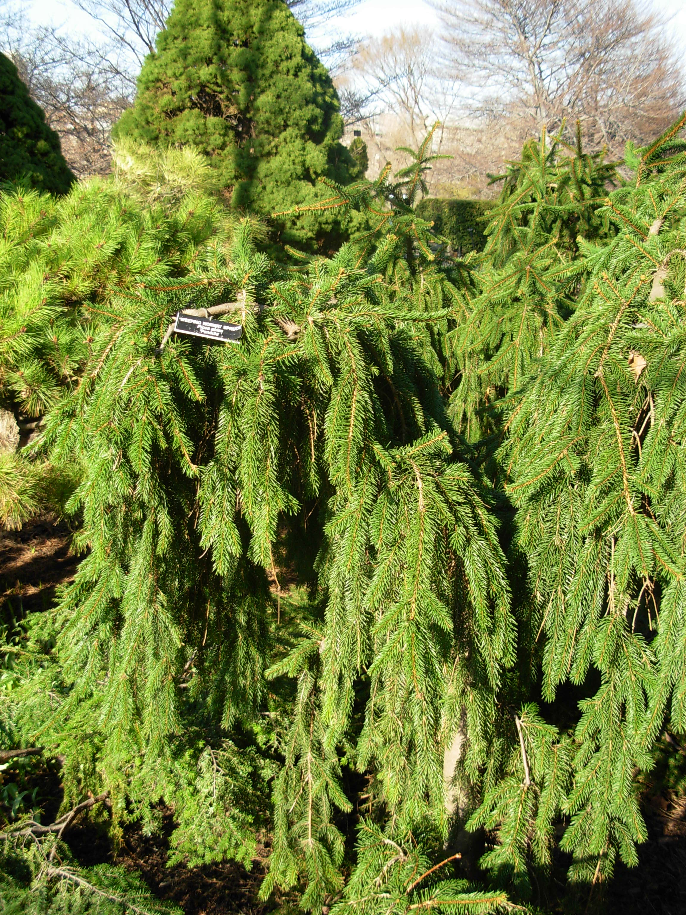 Picea abies 'Pendula' (Weeping Norway Spruce) in Phipps conservatory, Pittsburgh.